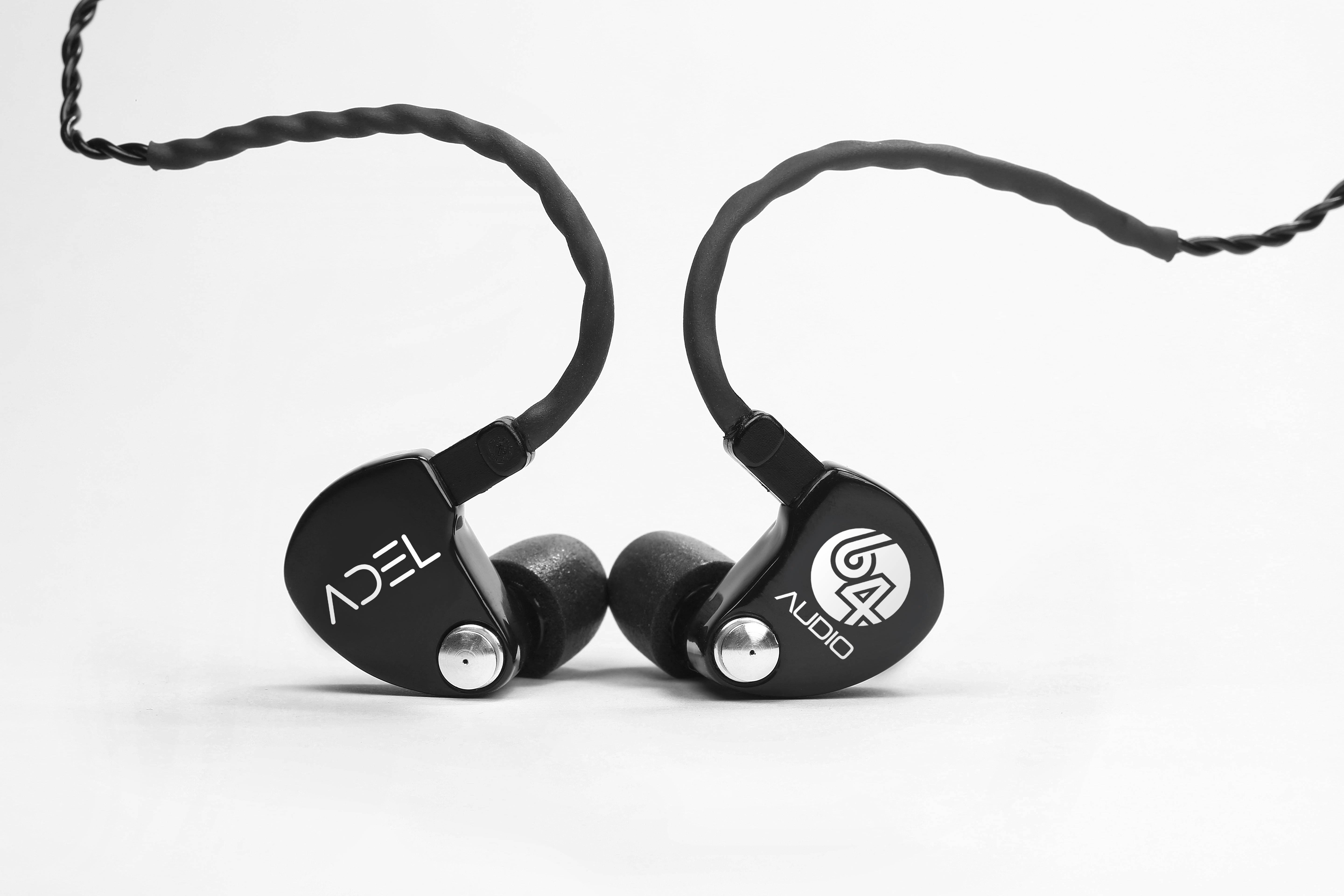 Universal Earphones hand-made by 64 Audio